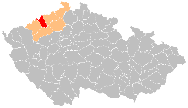 District of Most